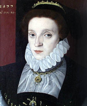 Lady Anne Agnes (Sydney) Fitzwilliam, wife of Sir William Fitzwilliam, Lord Deputy of Ireland, 1577.